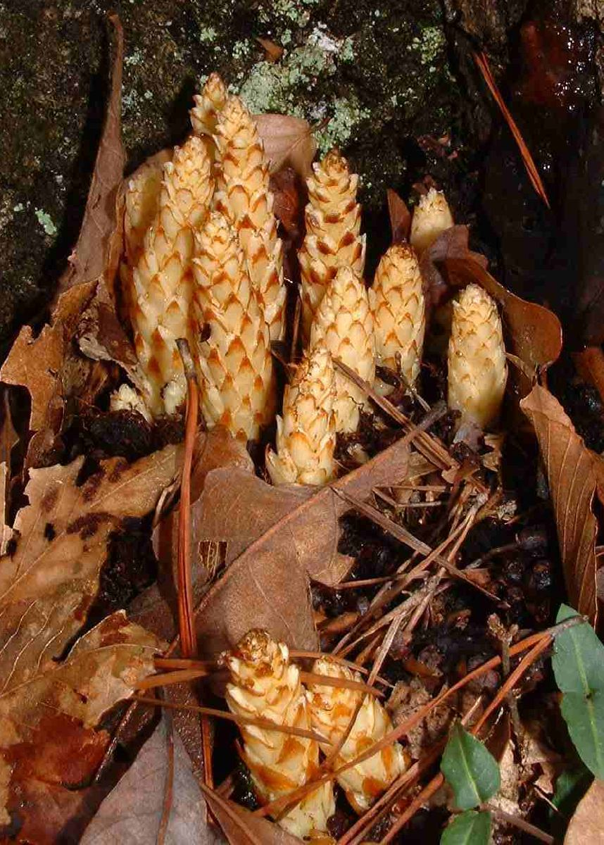 Conopholis americana, in beech/oak forest in Gadsden Co. FL USA